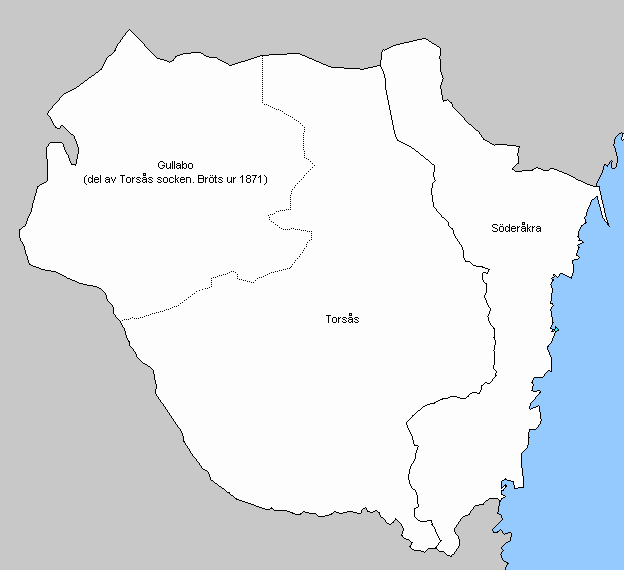 Parishes in Torsås' municipality